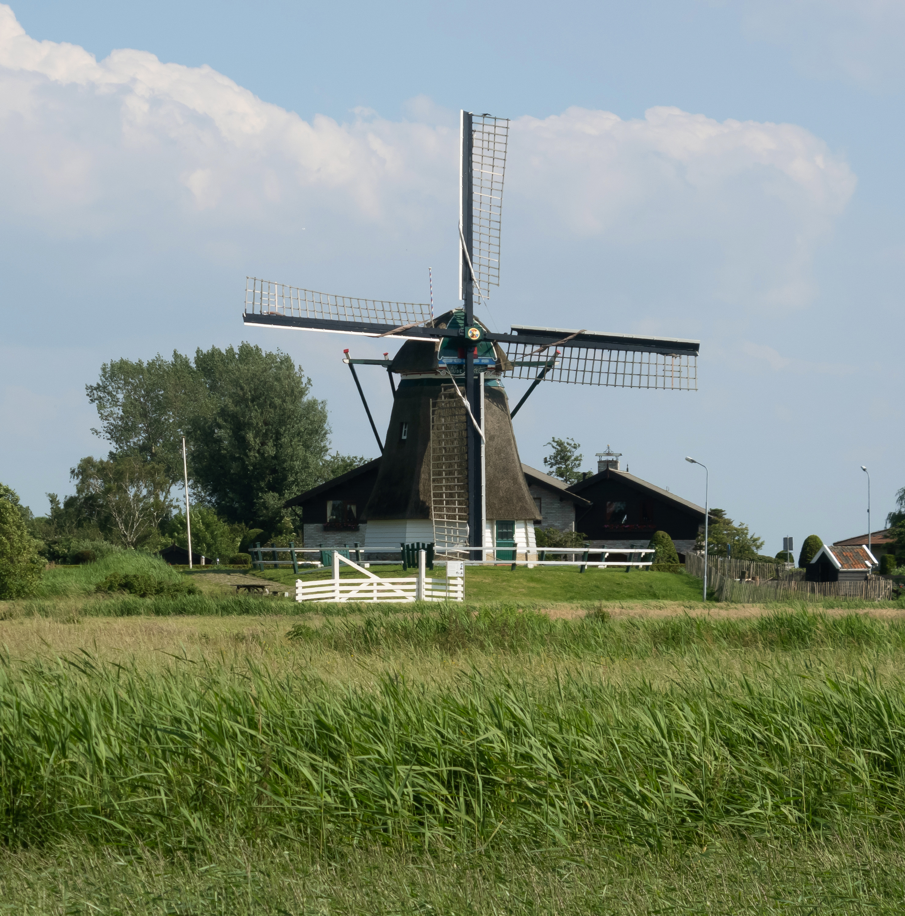 Akersloot, windmill: korenmolen de Oude Knegt